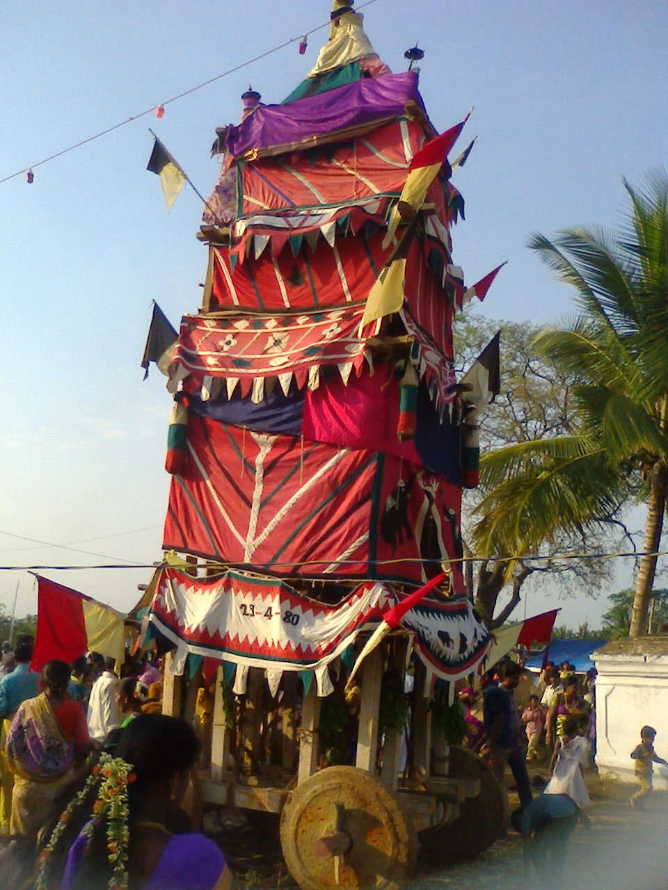 பாட்ட கங்கையம்மன் கோயில் தேர்